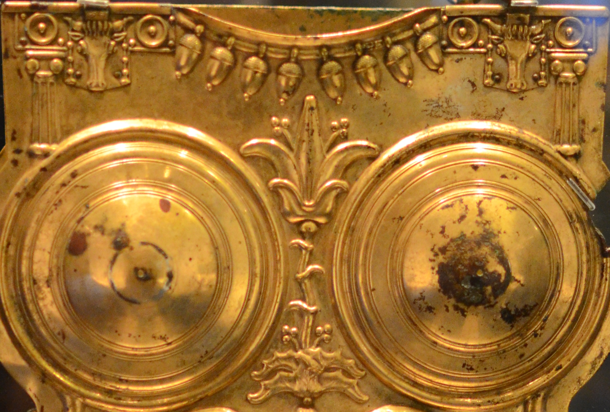 Front of the Ksour Essef cuirass